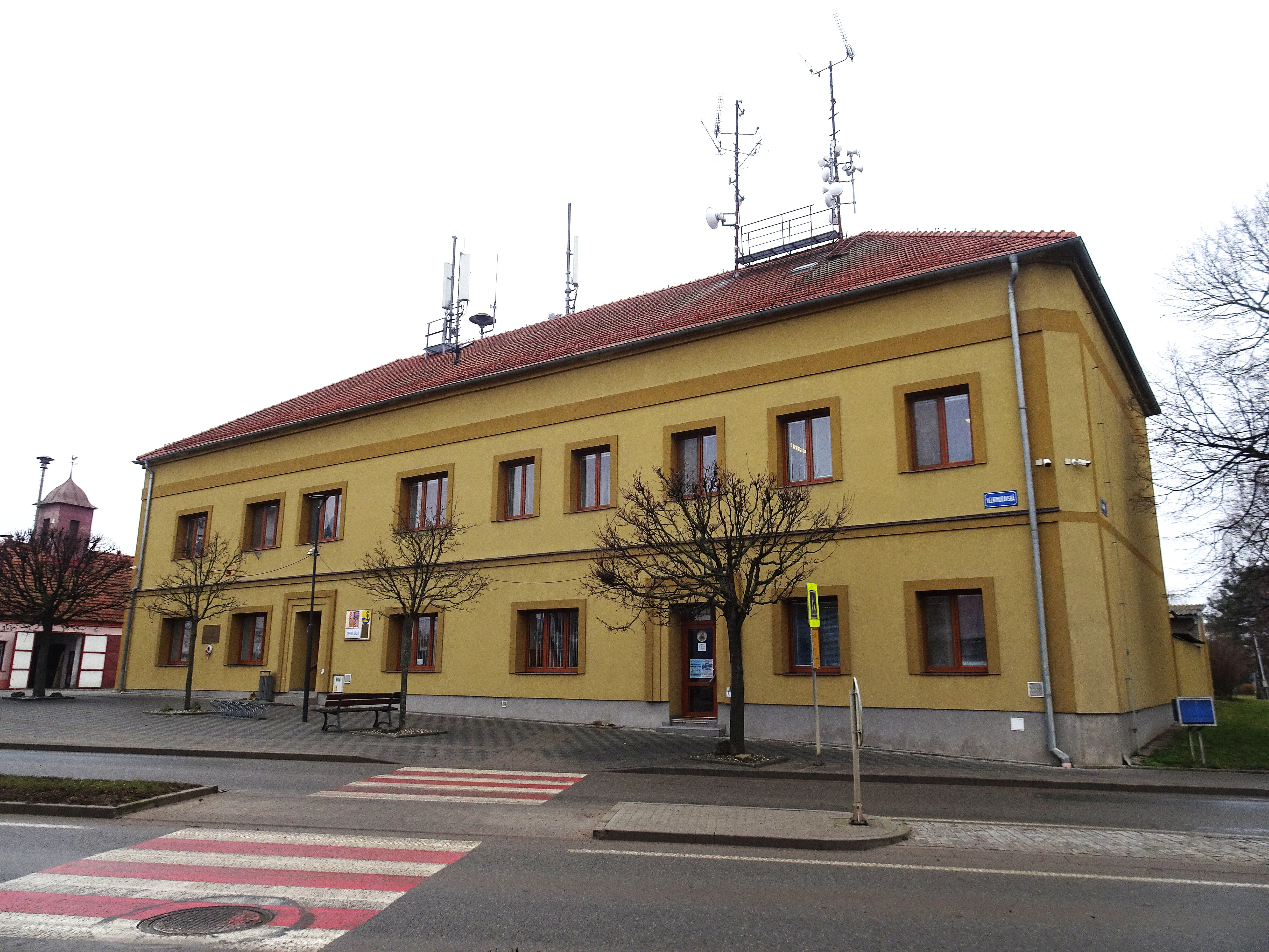 Moravský Písek in Hodonín District, Czech Republic. Municipal office.